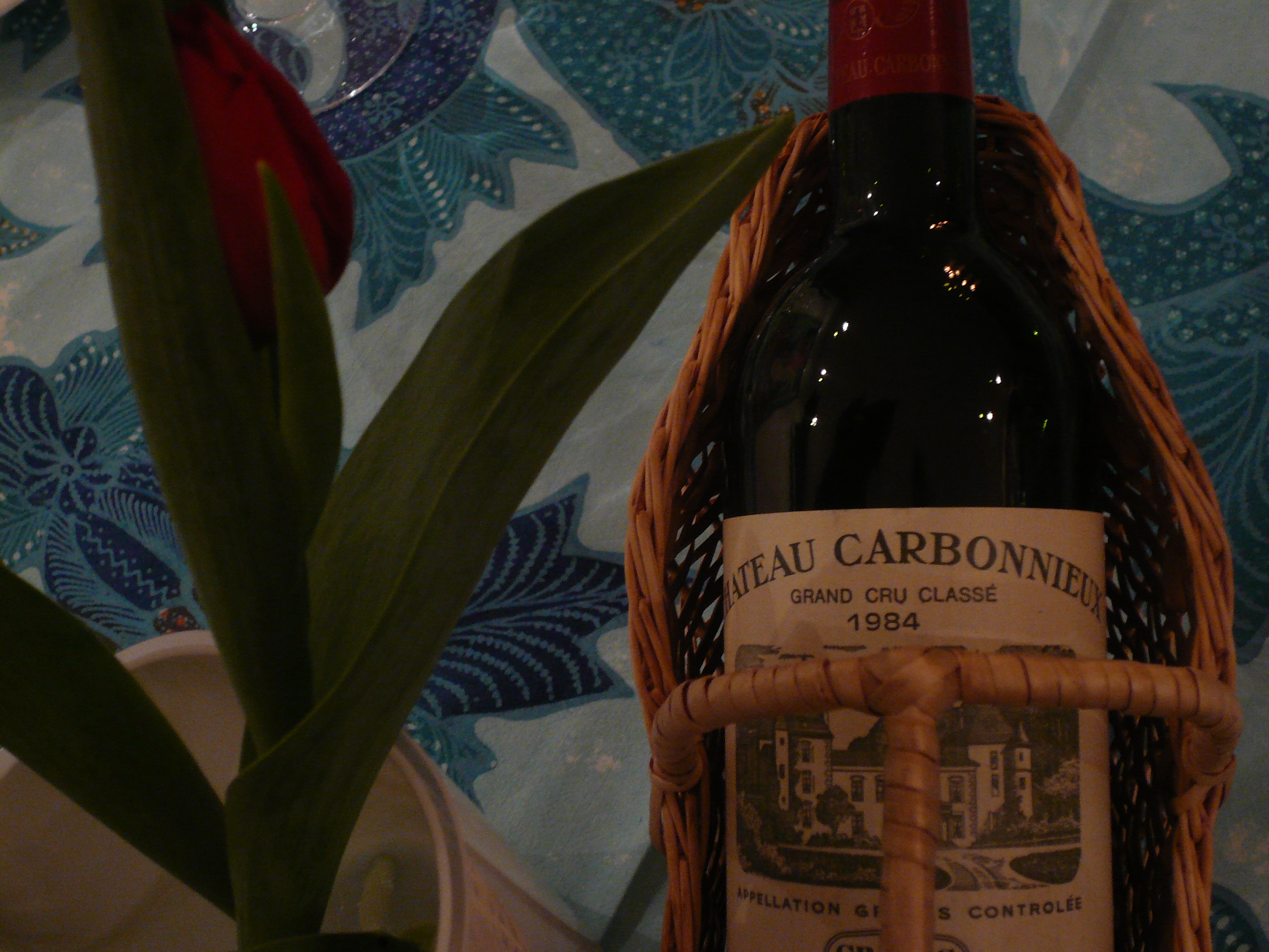 French wine from the Bordeaux estate in the presentation basket used to help decant the wine.